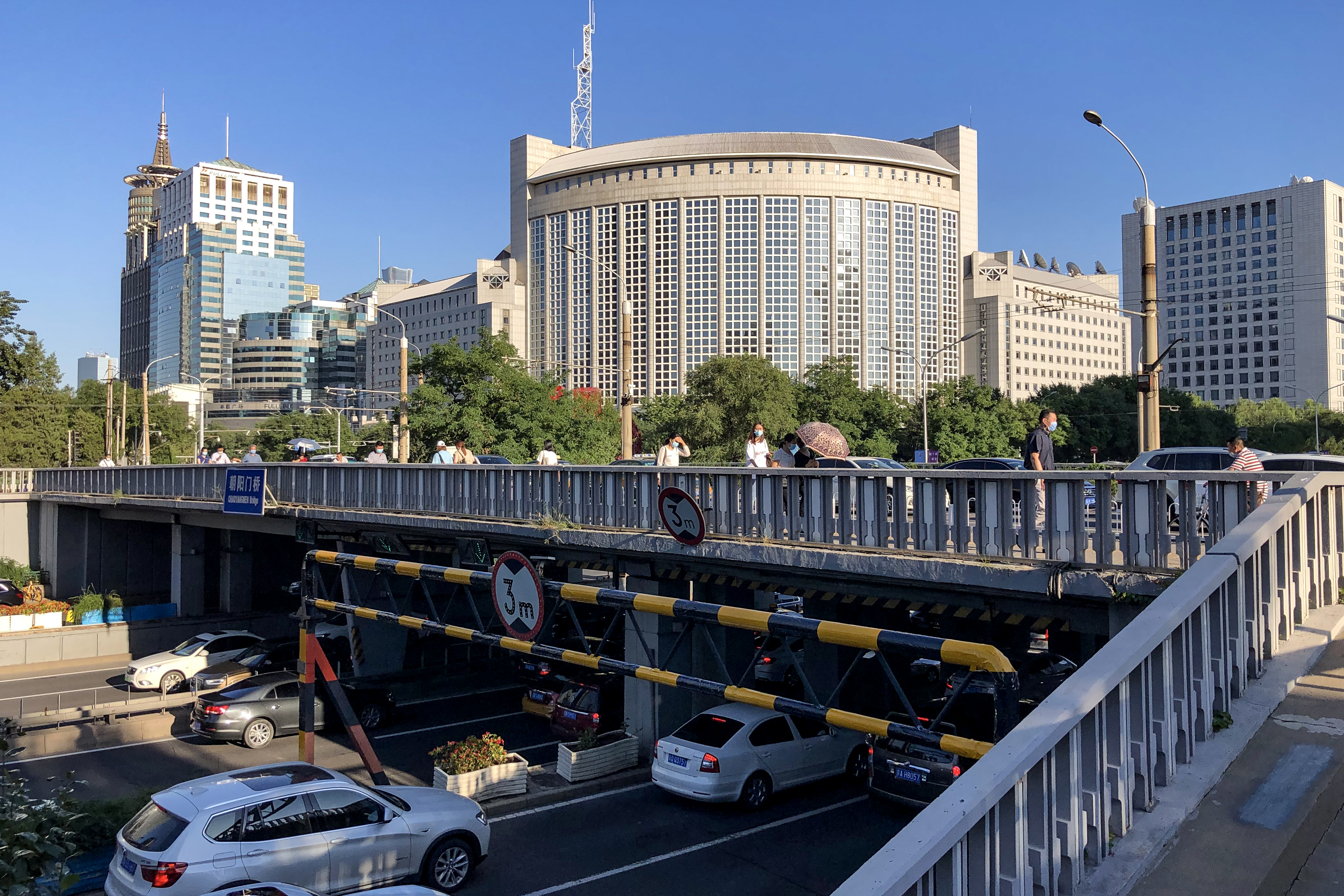 With FMPRC in sight.